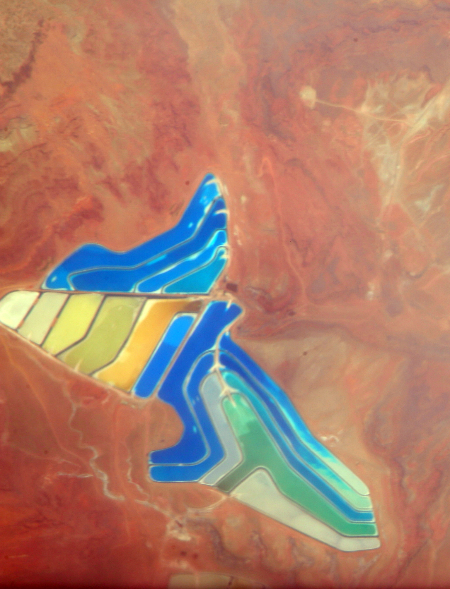 Intrepid Potash evaporation ponds, near the Colorado River, southwest (and downstream) from Moab, Utah. Note the changes in color from this shot I took in 2012 (also the one featured in Wikipedia). The air was also clearer for that one. The view in this set was through cloud cover.